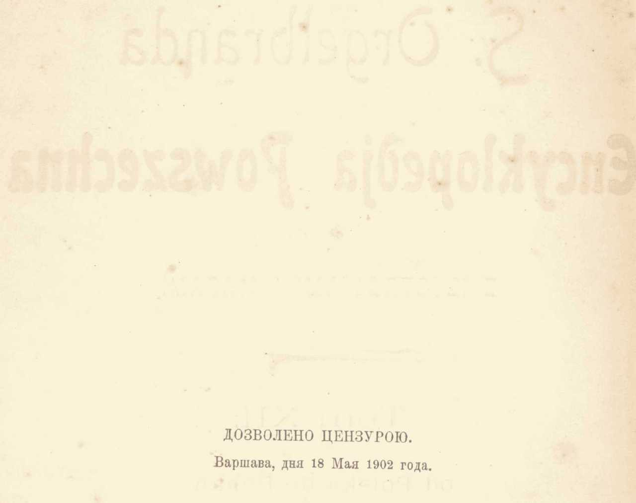 Back of front page of Polish Orgelbrand's Encyclopedia (vol.12). Censorship's acceptation in Russian language ("accepted by censor May 18th, 1902").